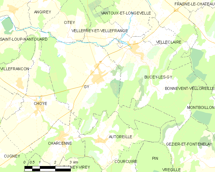 Map of French municipality